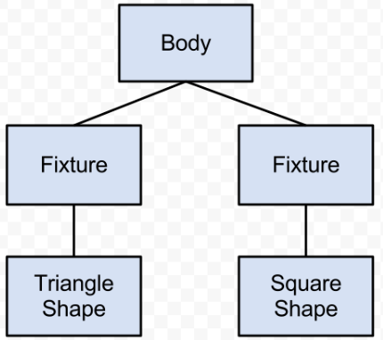 Objektu izveidošanas struktūra